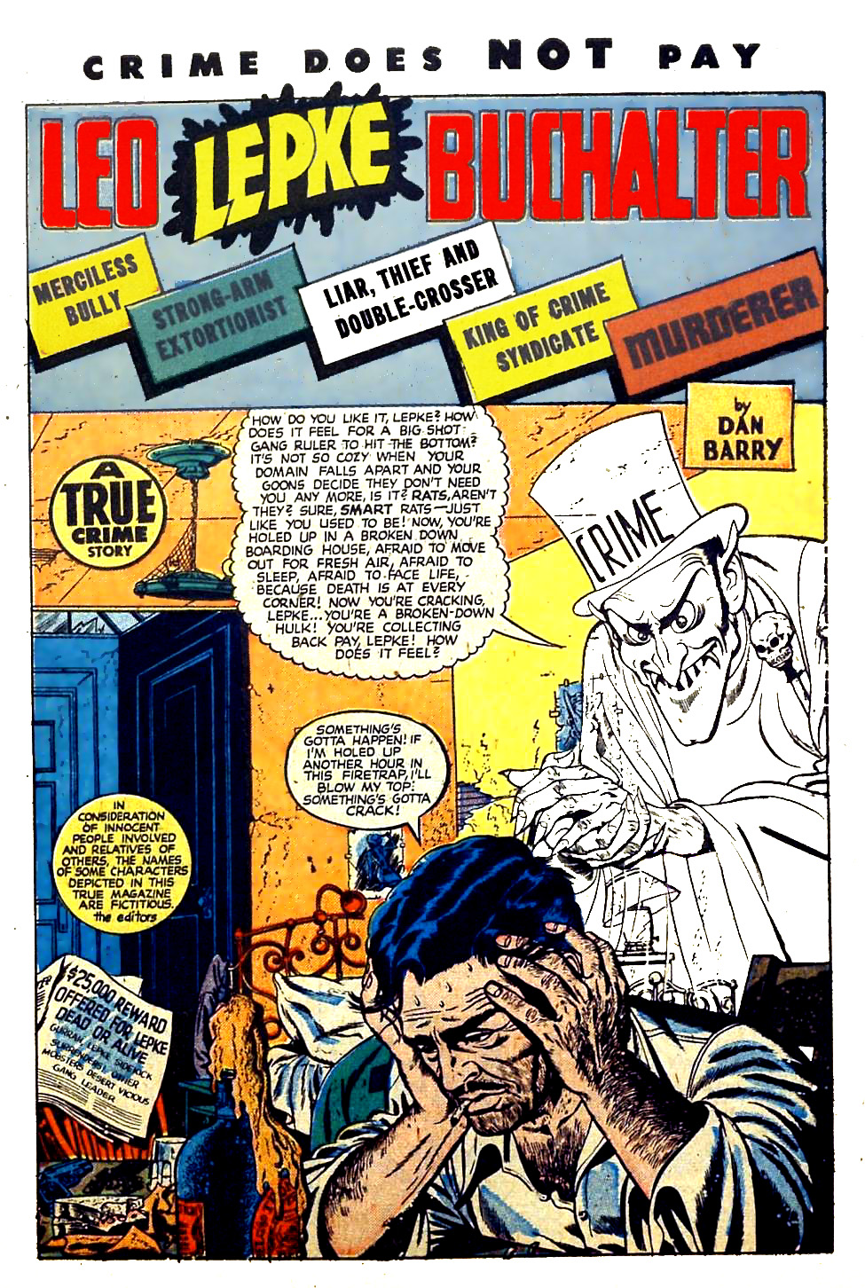 Splash panel from Crime Does Not Pay, number 55, September 1947. Artwork by Dan Barry, featuring the demonic "Mister Crime", the title's sole continuing character. Mister Crime is generally considered the forerunner of comic book "horror hosts" such as EC's Crypt Keeper.